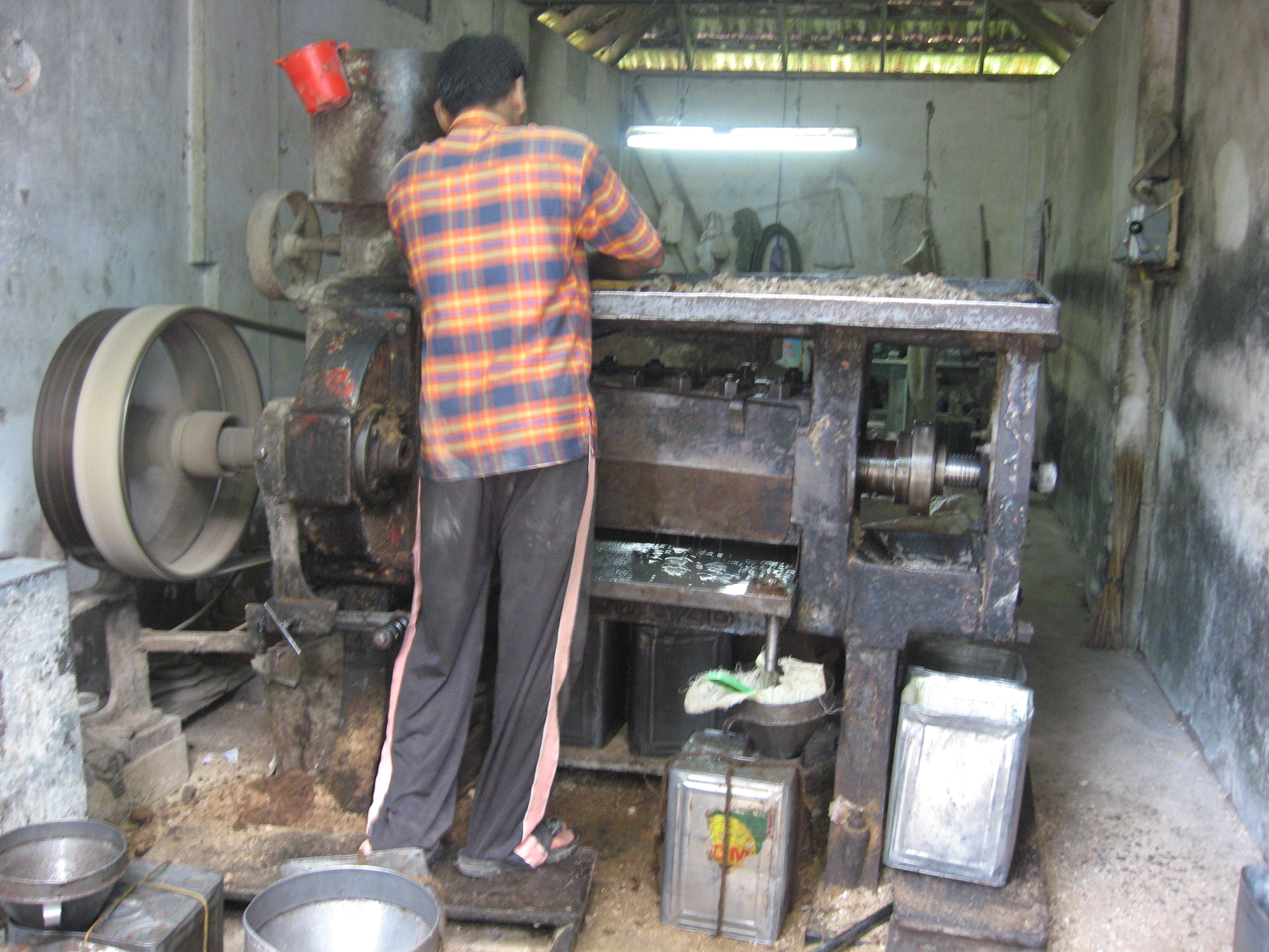 Cocunut oil extracted from Copra i.e. dried Coconut